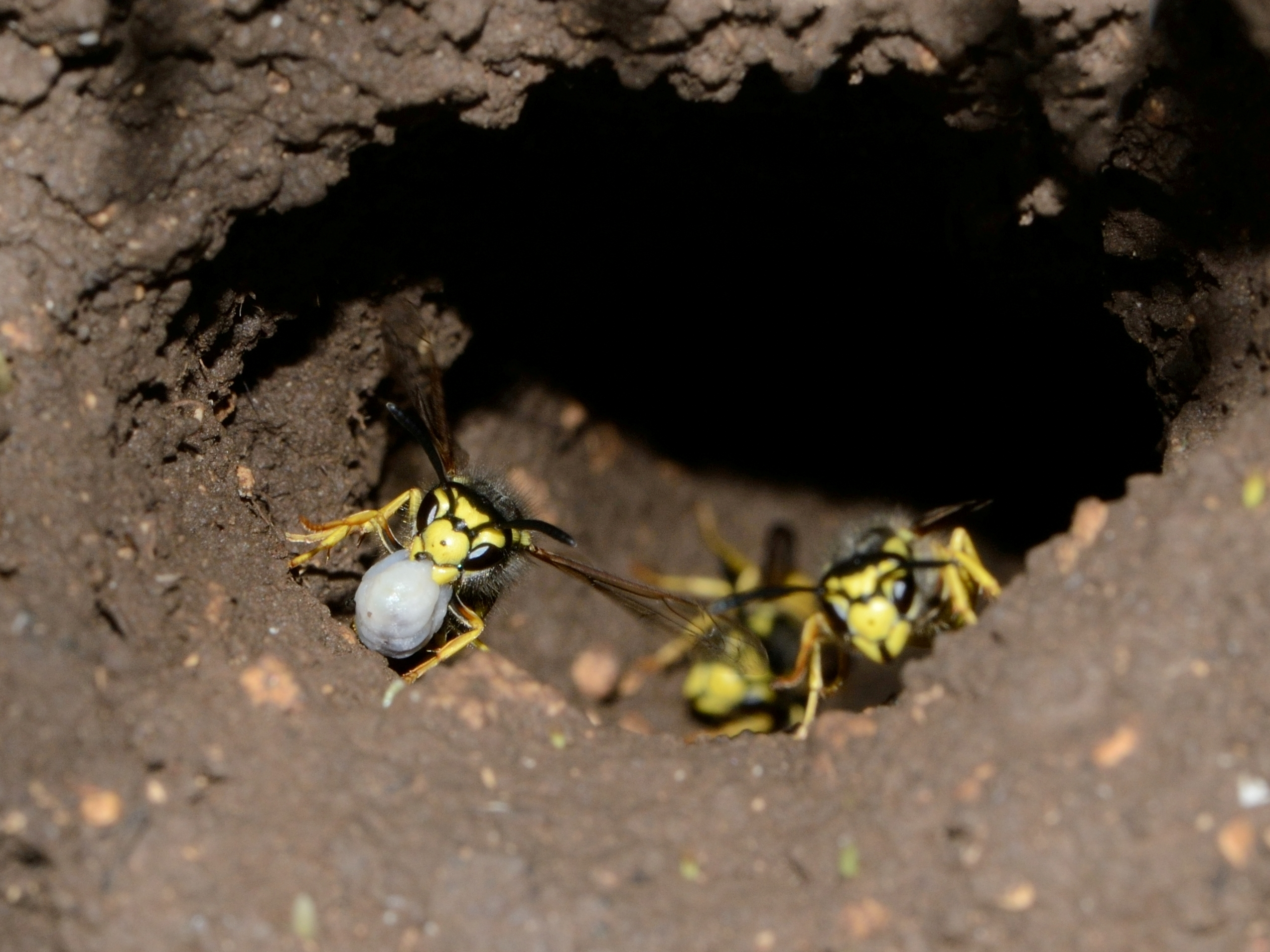 Vespula germanica, workers at the nest entrance, Mount Carmel, Israel, November 24, 2011.